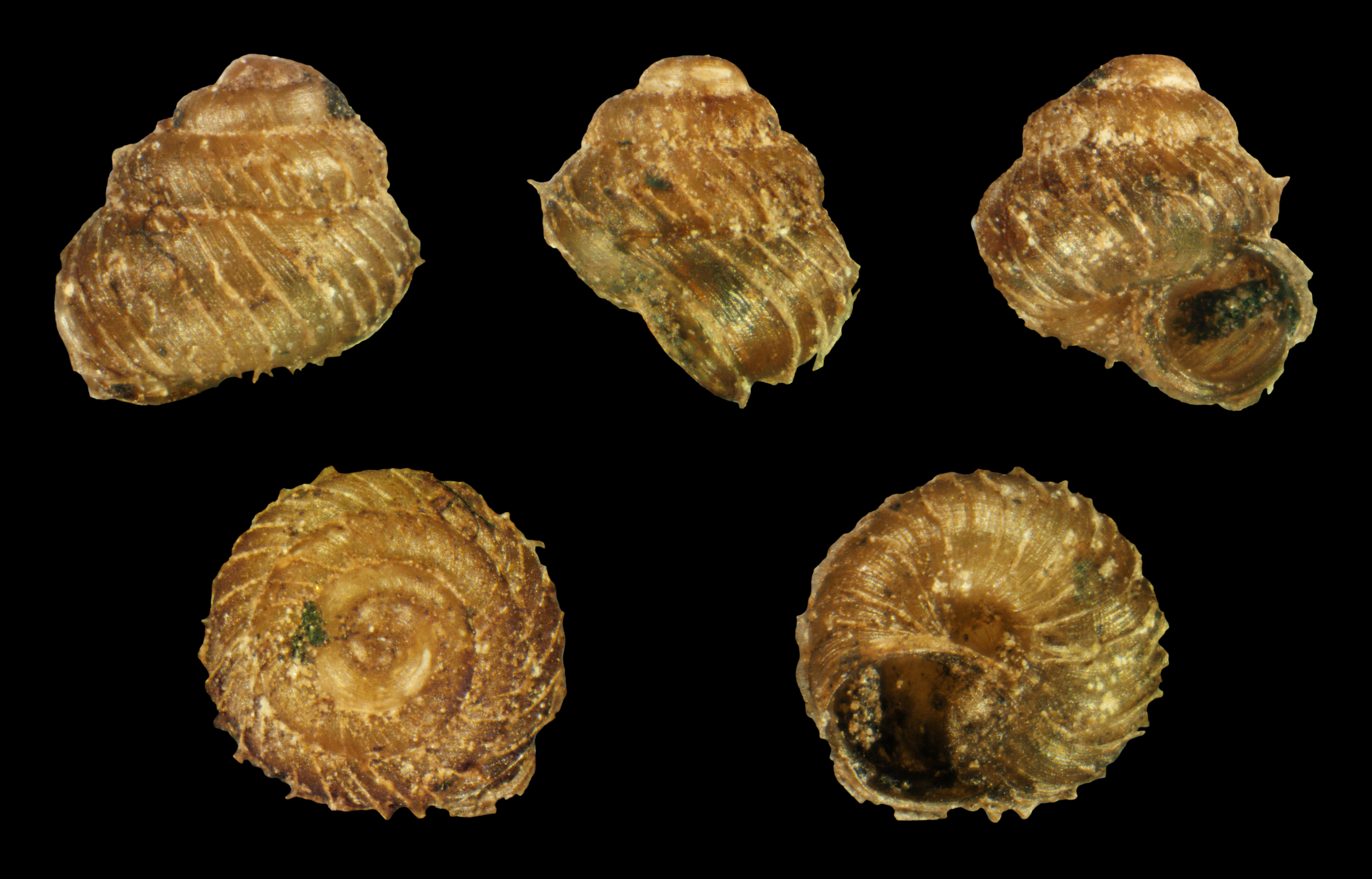 Acanthinula aculeata (Müller, 1774); Diameter 0.19 cm; Originating from Stühlingen-Grimmelshofen, Baden-Württemberg, Germany; Shell of own collection, therefore not geocoded.